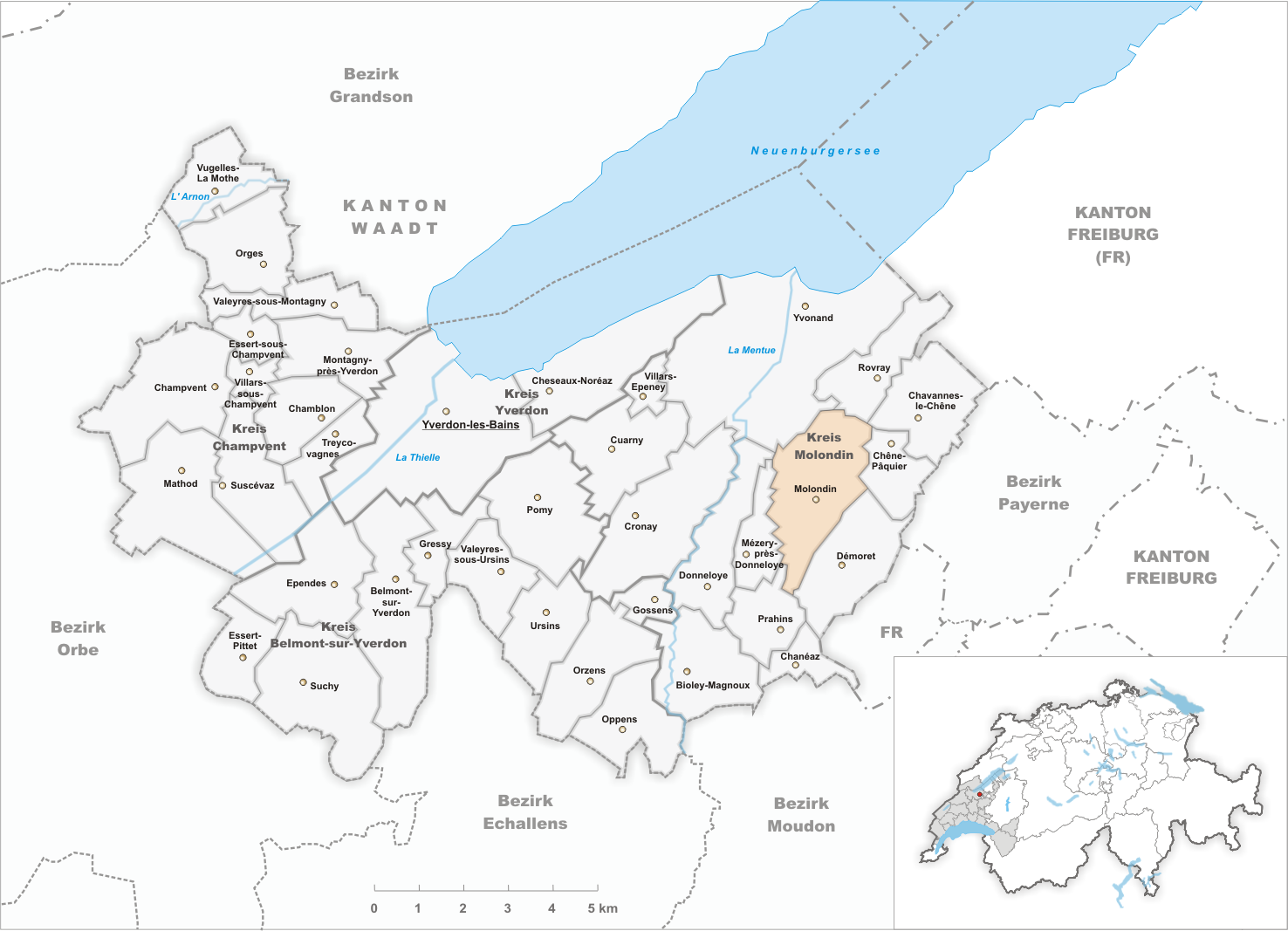 Municipality Molondin